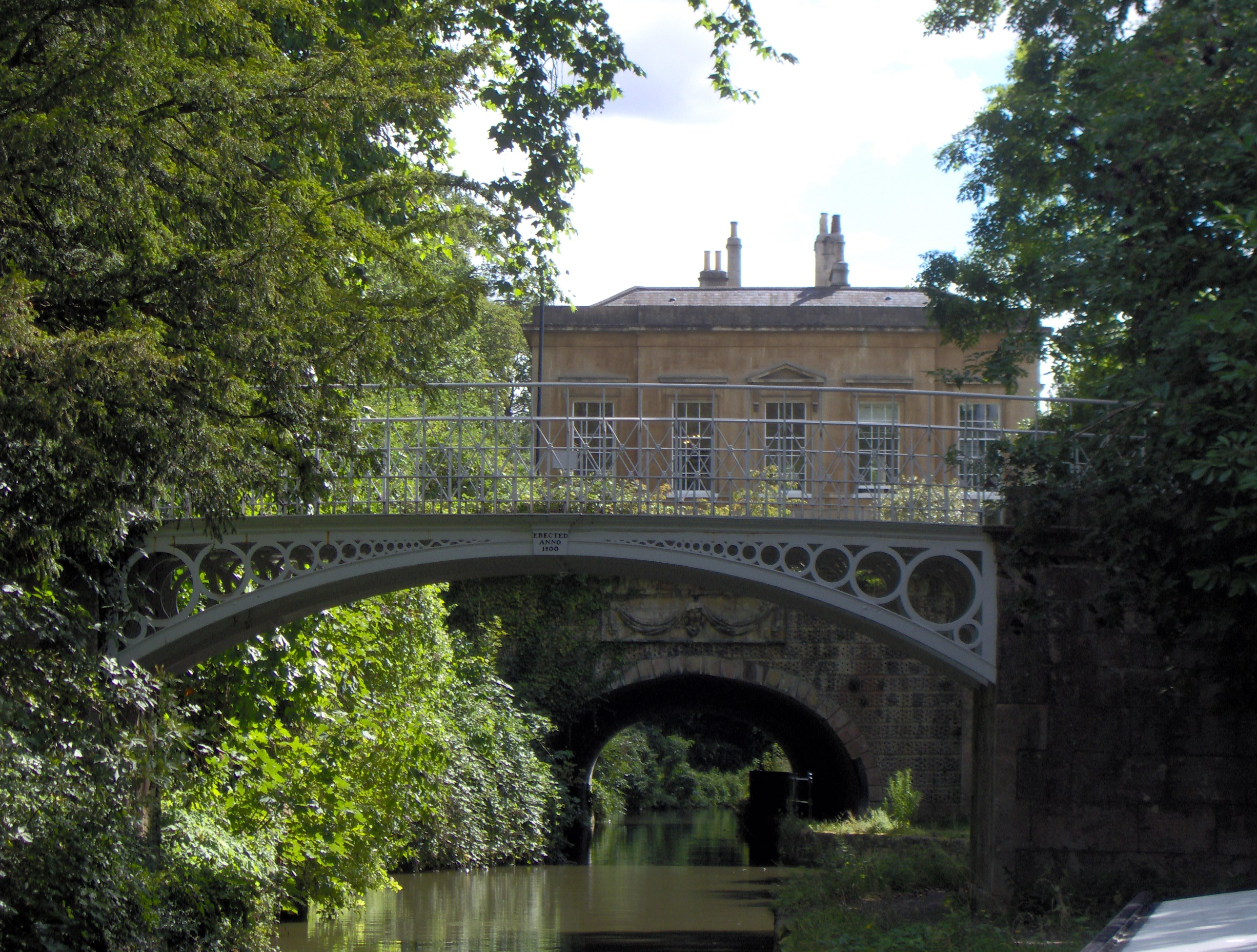 Cleveland House over Bath Locks on the Kennet and Avon Canal. Taken by Rod Ward August 2006